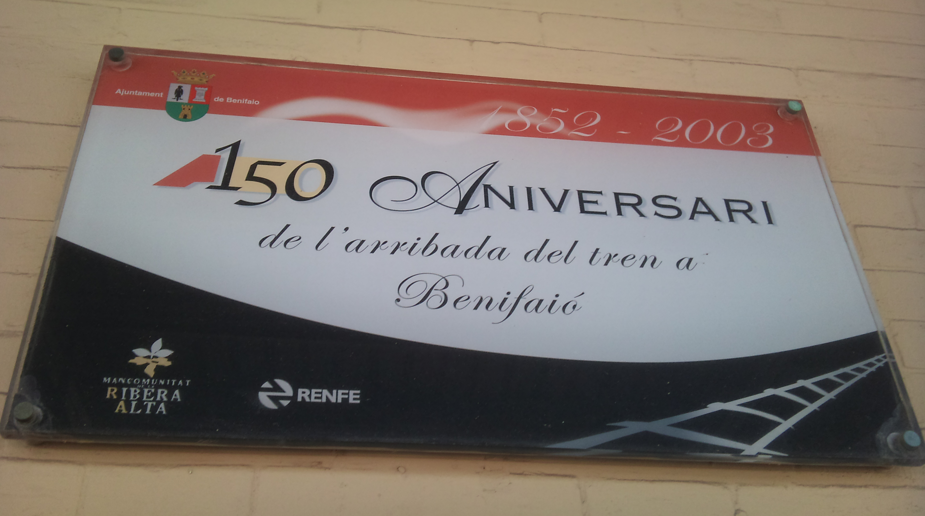 Commemorative plate for the 150th birthday of the arrival of the railroad in the village of Benifaió, Land of València.